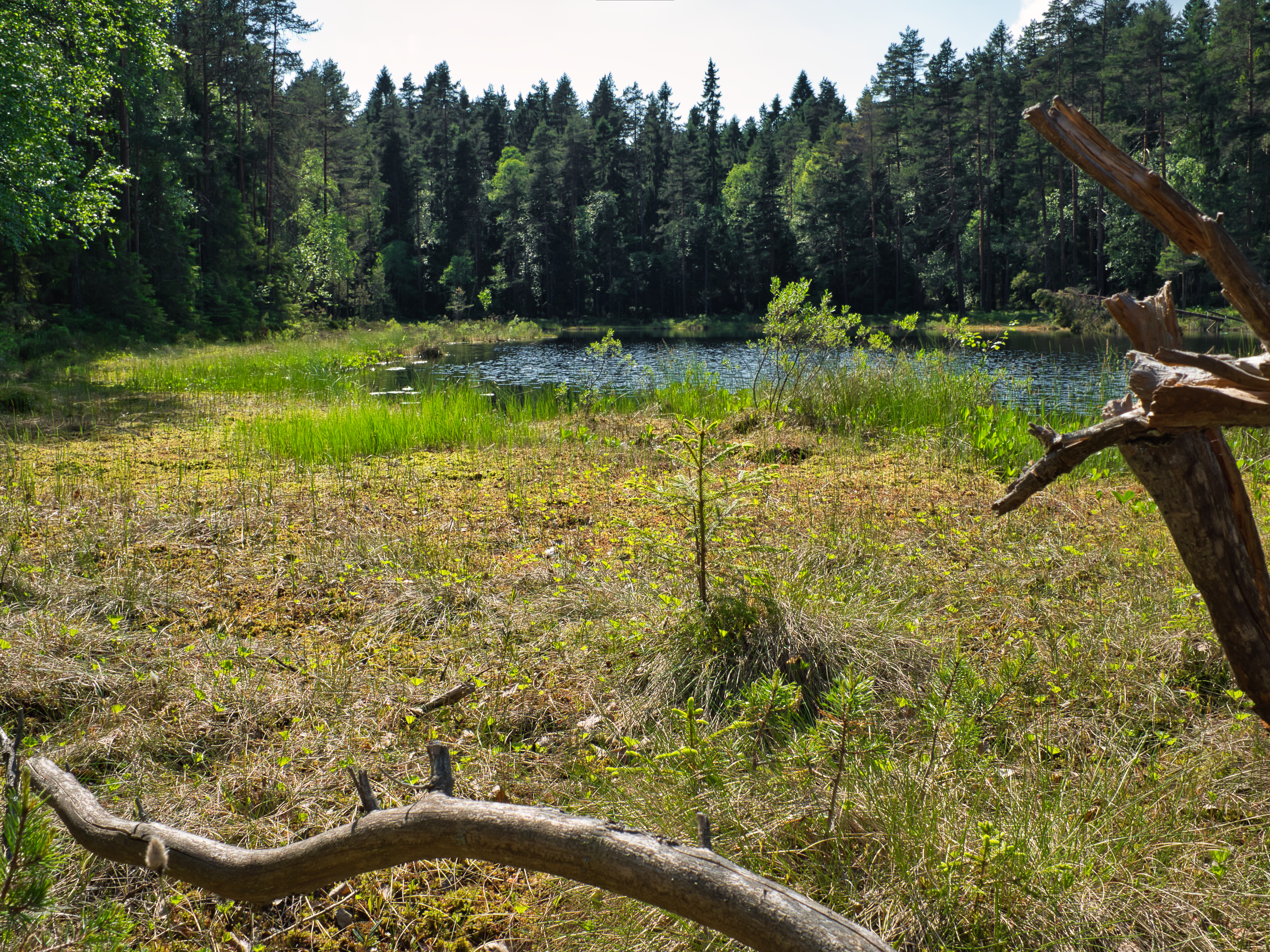 Photo taken in Svarthavet nature preserve.